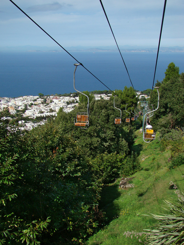 Capri, Campania, Italy. View from the chairlift between Monte Solaro and the town of Anacapri. On the horizon, the Gulf of Naples.